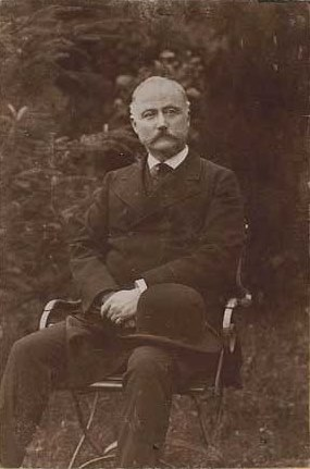 Joachim Sigismund Ditlev Knuth (1835-1905), Danish Count and diplomat